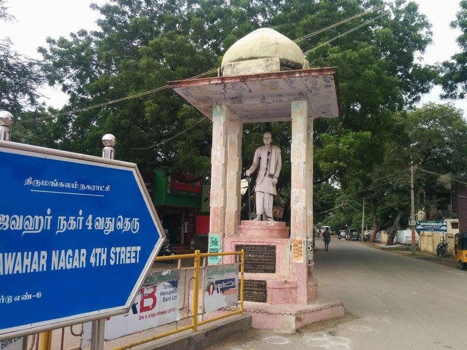 One of the rarest Rajaji Statues suited in Tirumangalam (Madurai)